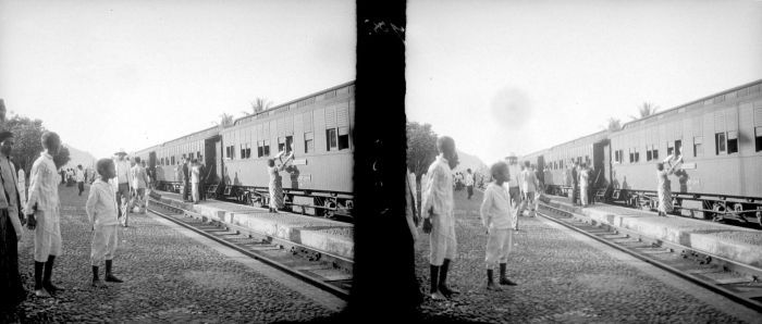 Train on the railwaystation in Plered, West-Java